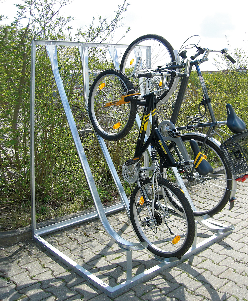 slope bicycle rack